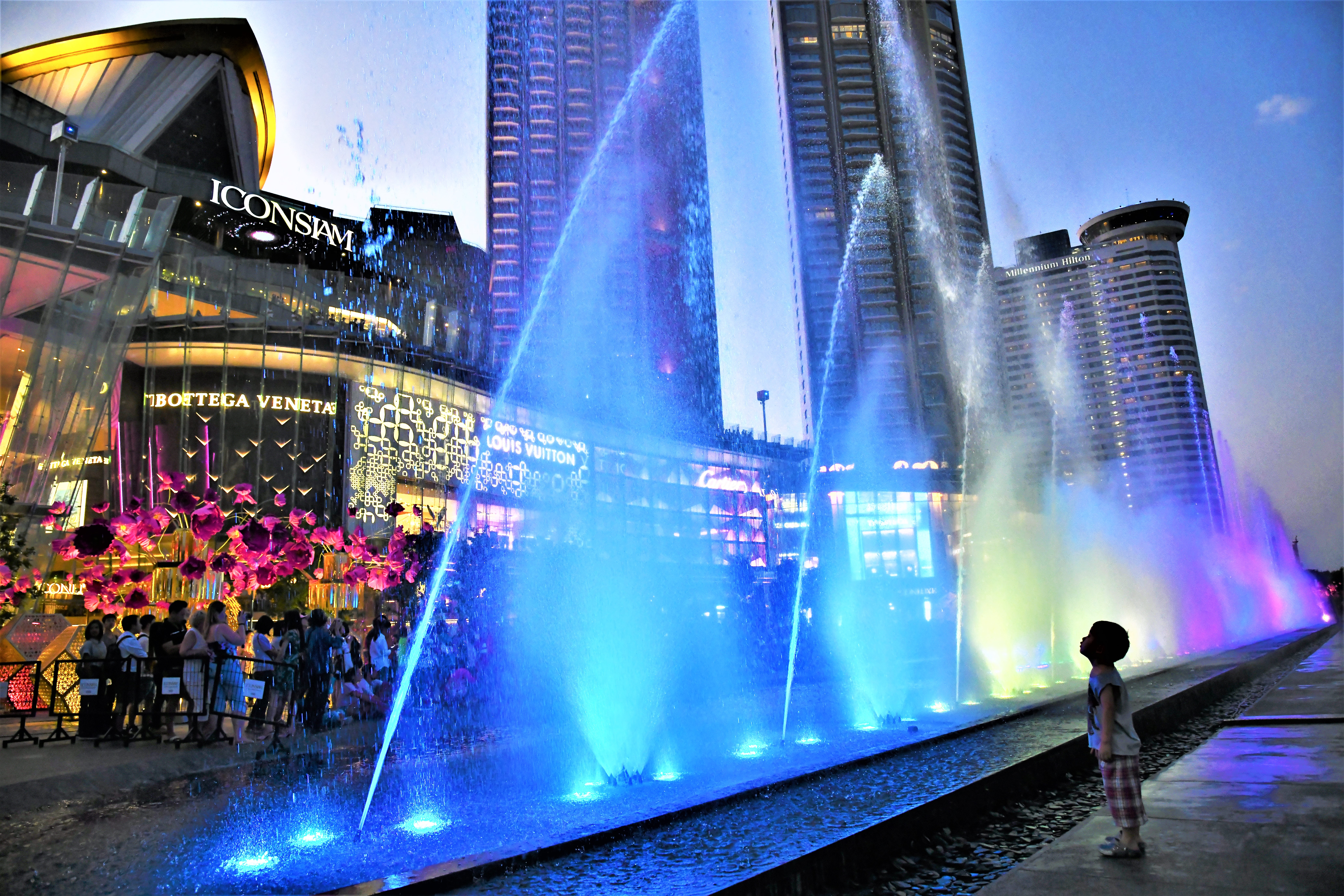 ICONSIAM Iconic multimedia water features